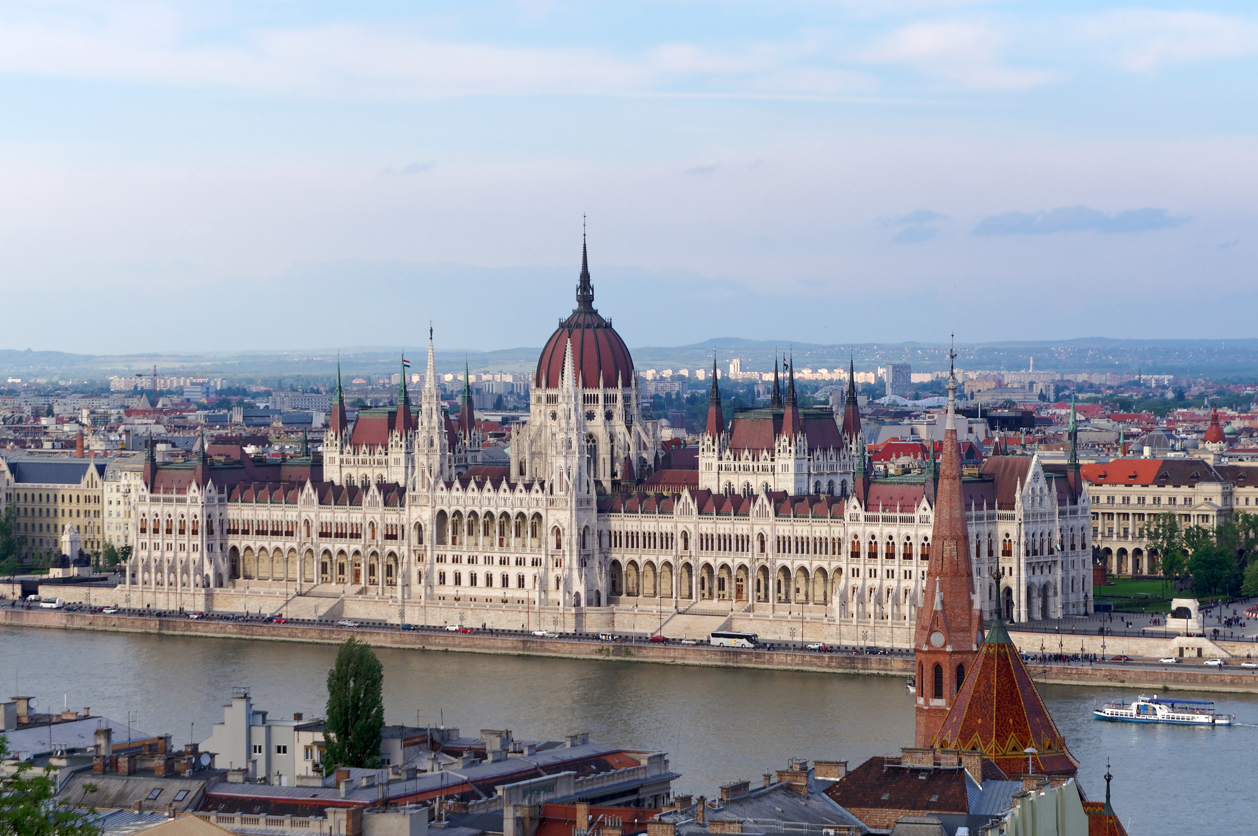 View of Hungarian Parliament Building from Fisherman's Bastion